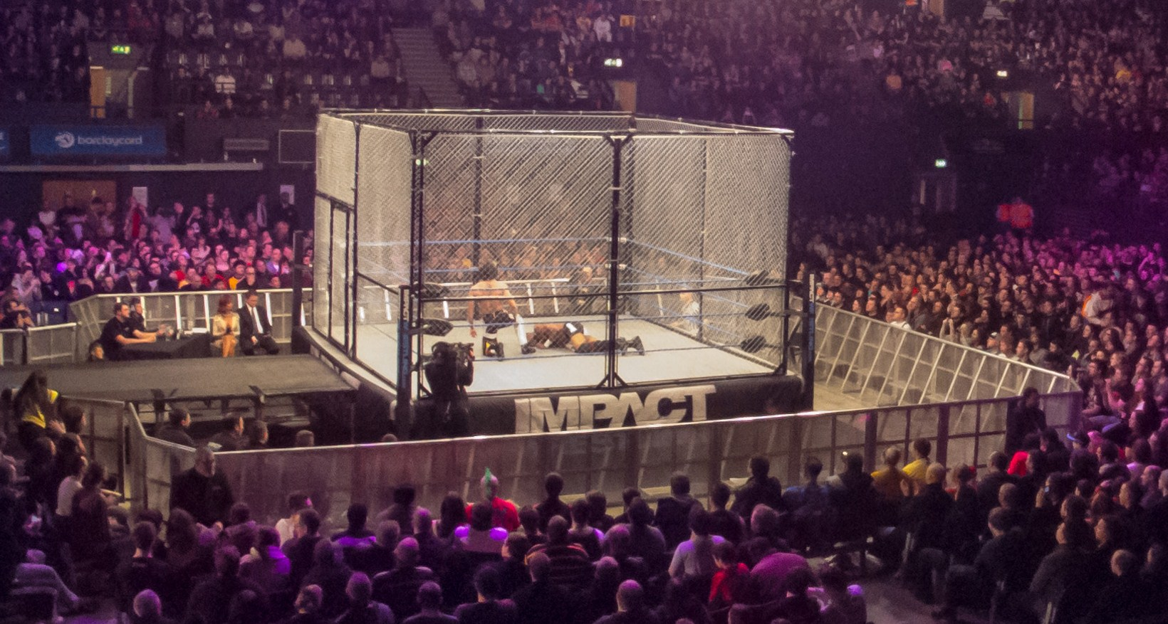 A dark cage match at the Impact! TV Tapings in Wembley, England on January 26, 2013.